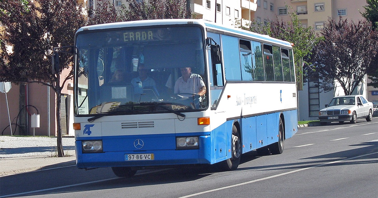 Local bus going to Erada, Covilhã, Portugal